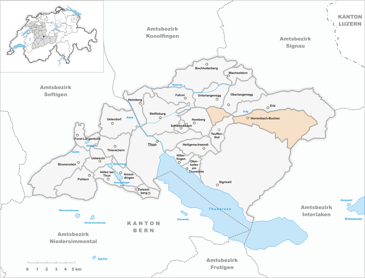 Municipality Horrenbach-Buchen